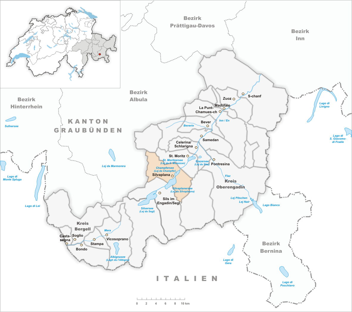 Municipality Silvaplana